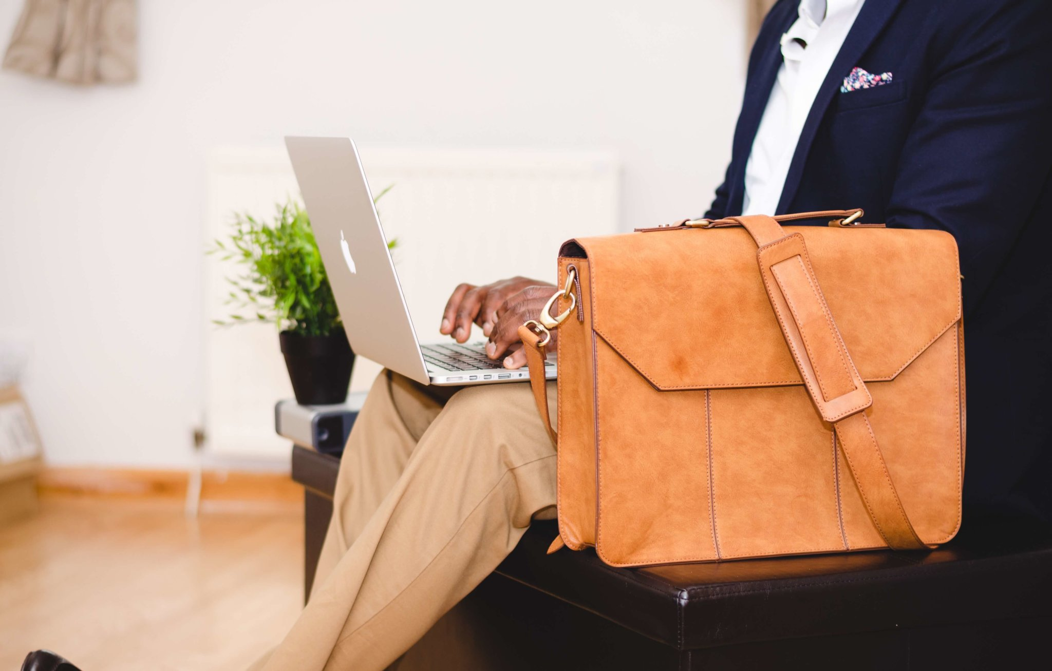 Man with satchel typing on laptop computer